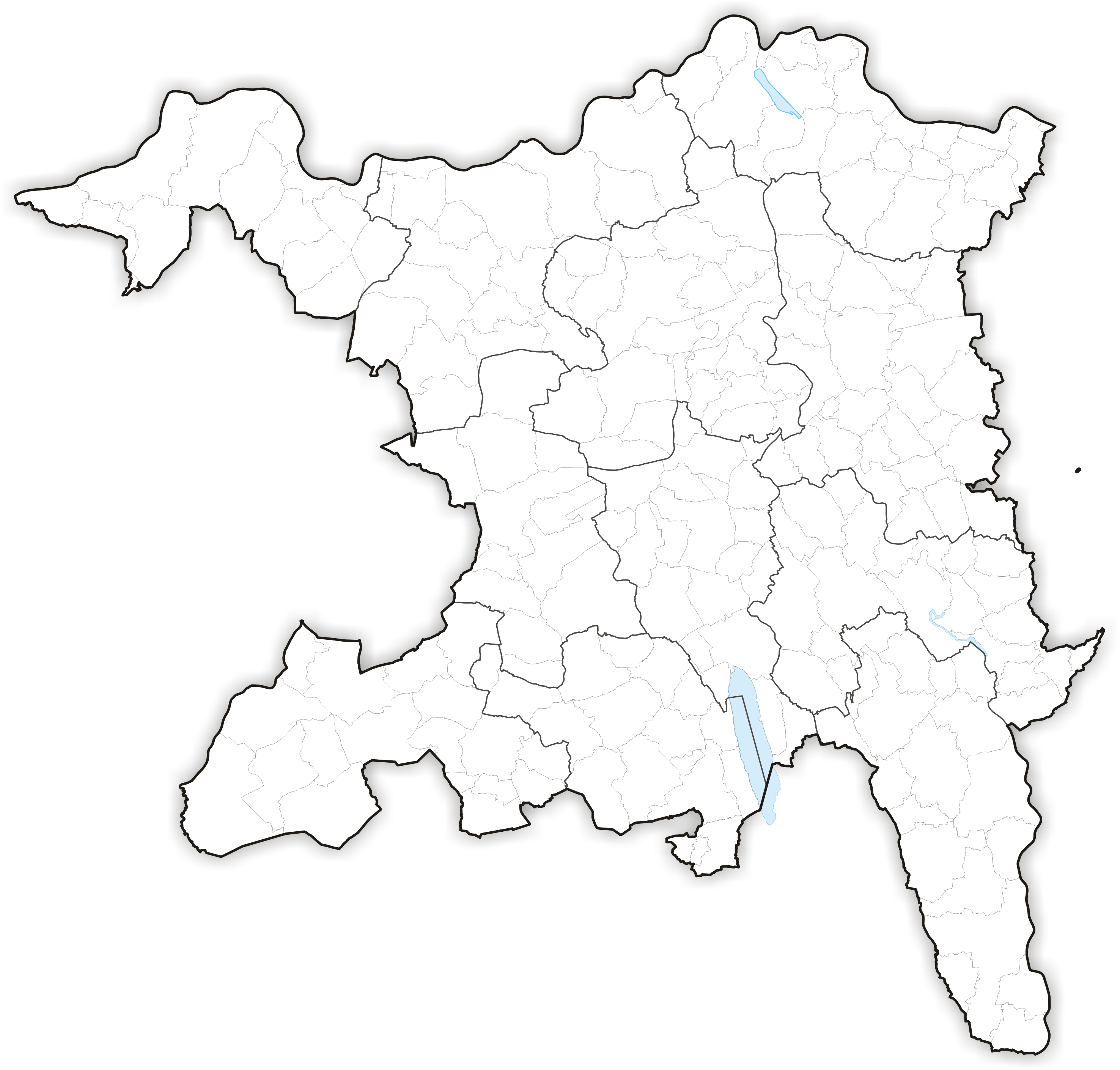 Municipalities in Canton Aargau